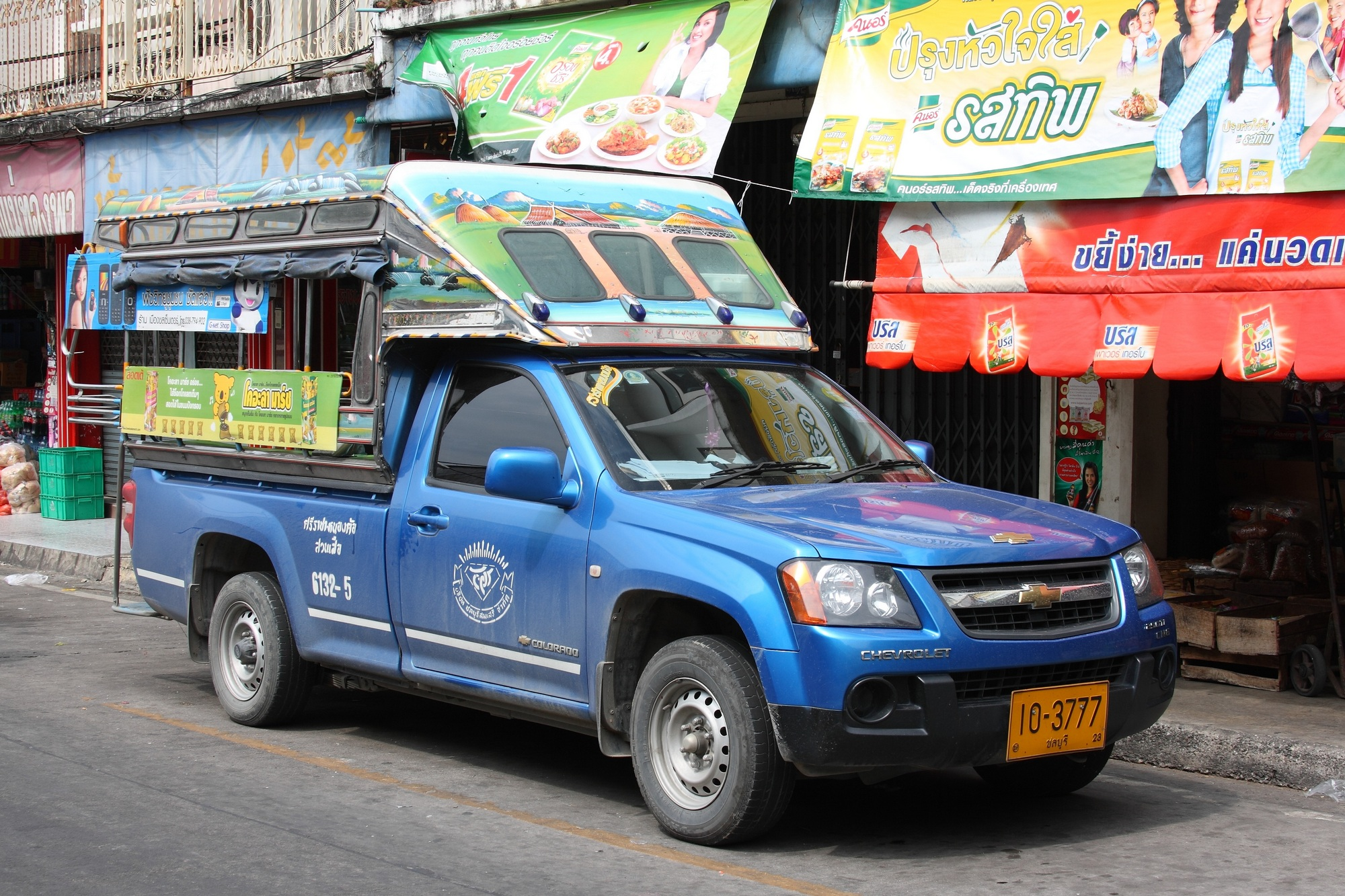 Songthaew in Sri Racha, Chonburi province, Thailand (Chevrolet Colorado)